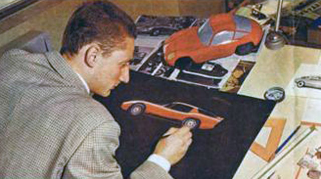 Ercole Spada of Zagato is drawing what looks like the Alfa Romeo Giulia TZ2 in the 1960s. Production was 1965–67, so this could be 1964–65.